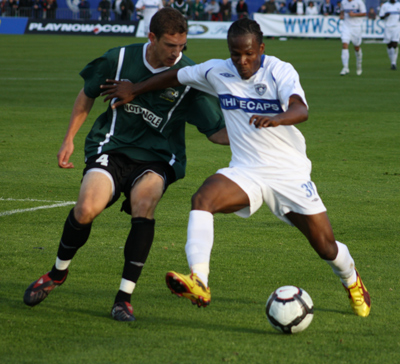 A photo of Cornelius Stewart of the Vancouver Whitecaps.